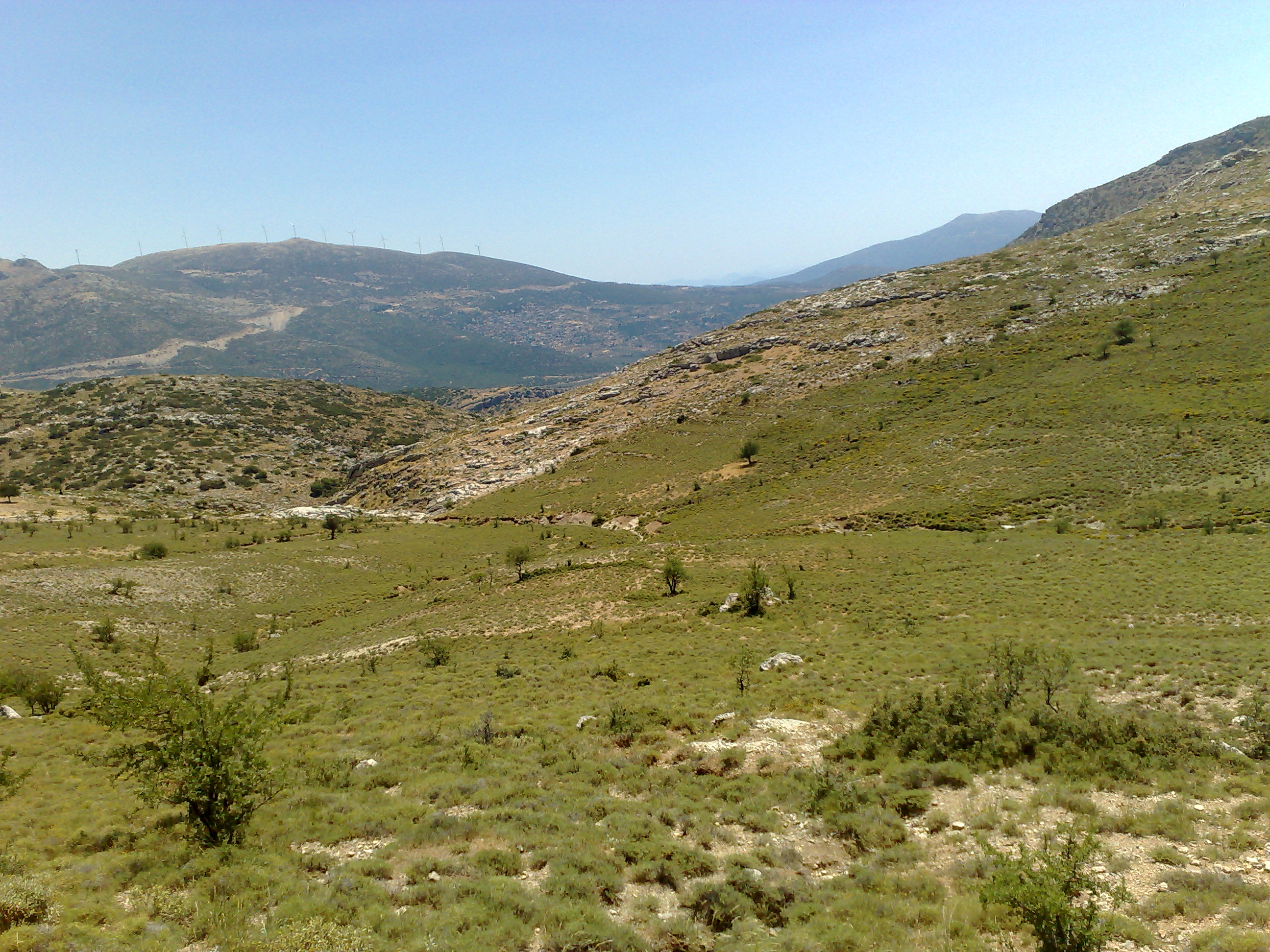 Landscape near Achladokambos, Border of Argolis–Arcadia, Greece Σύνορα νομών Αρκαδίας Αργολίδος